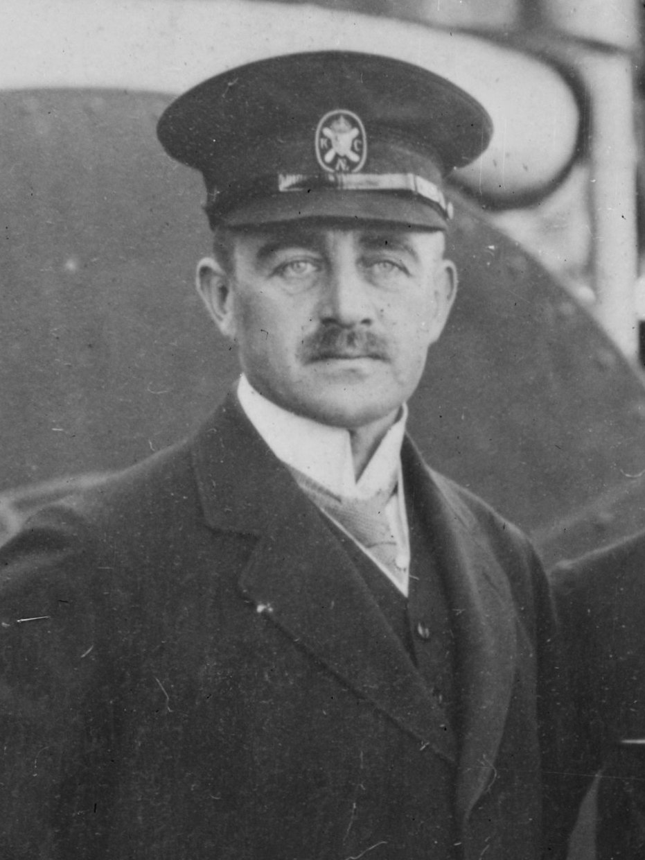 Hugo von Abercron, member of the German Team at Belmont Park.